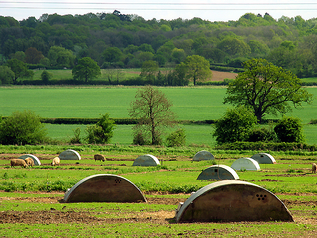 Pig Farming Near Bucklebury. This pig farm is situated in the southern half of the grid square. It was taken from the road north of the field.